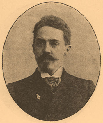 Illustration from Brockhaus and Efron Encyclopedic Dictionary (1890—1907)